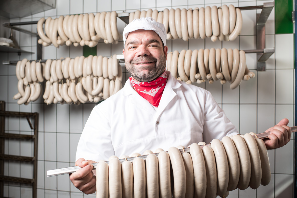 Photo Credits: Samuel Trümpy Photography